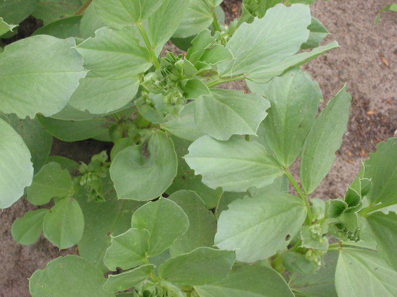 Vicia faba damage by the beetle Sitona lineatus (bladrandkever schade)